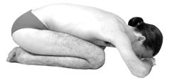 Vajra Kurmasana